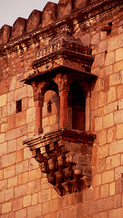 The Purana Qila/Old Fort in Delhi.